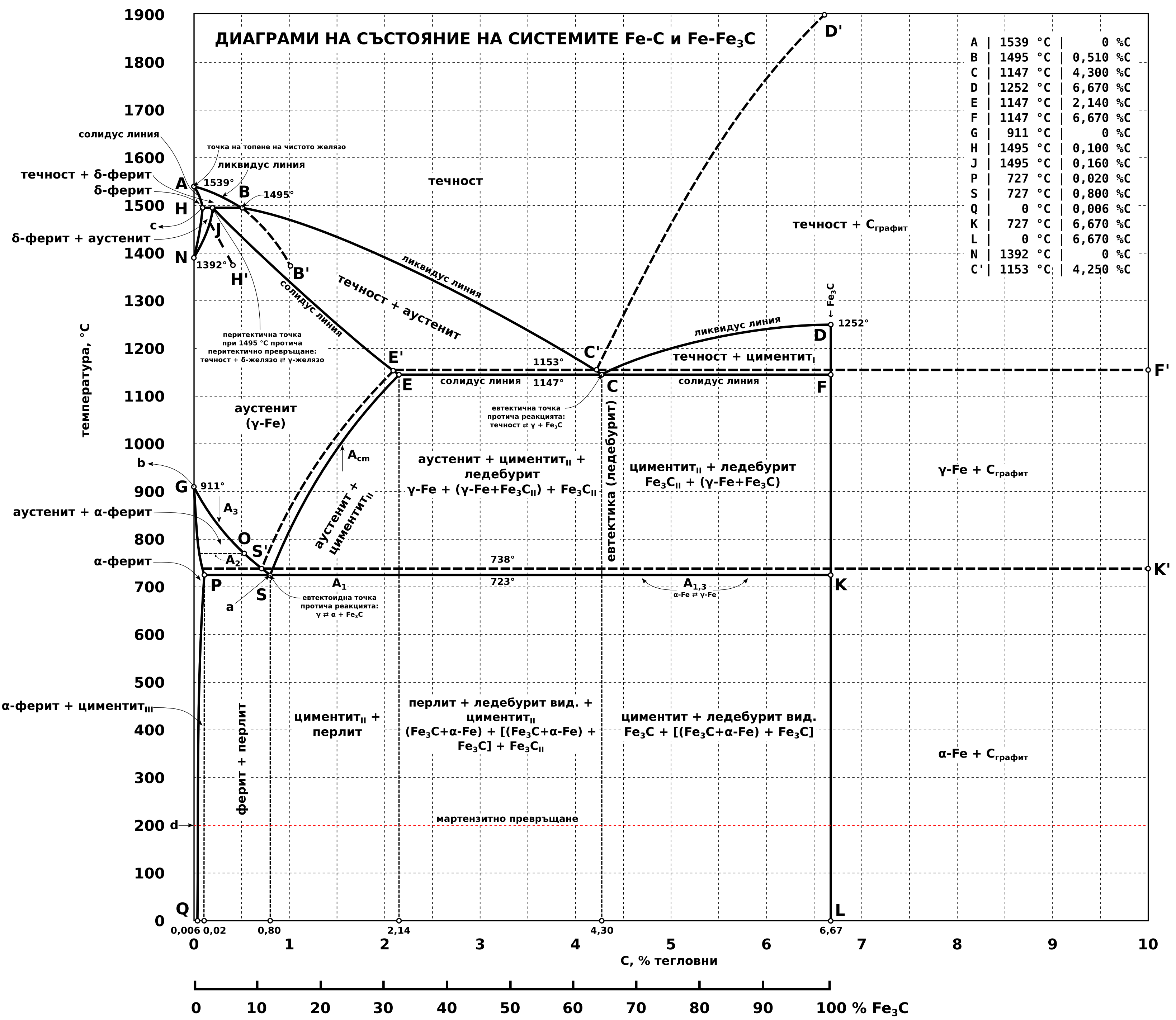 Phase diagrams of the systems Fe-Fe3C and Fe-C